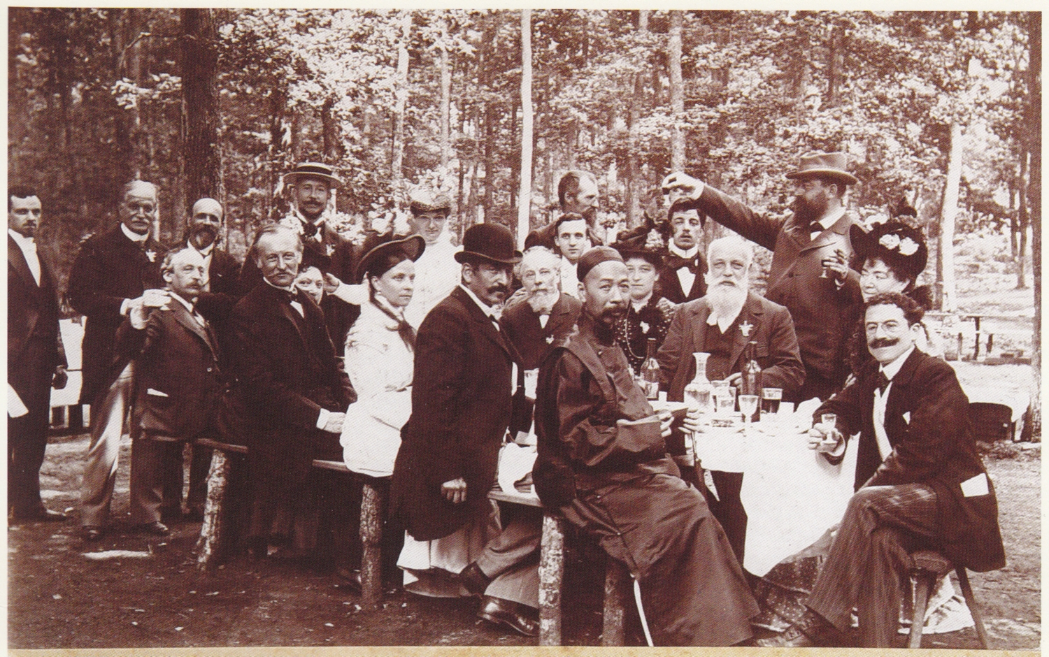 Banquet in the forest